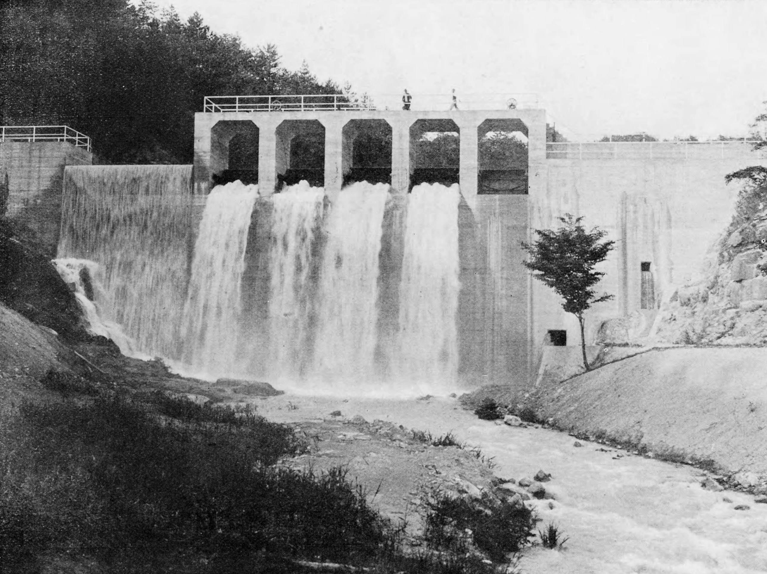 Yamaguchi Dam (Aichi).